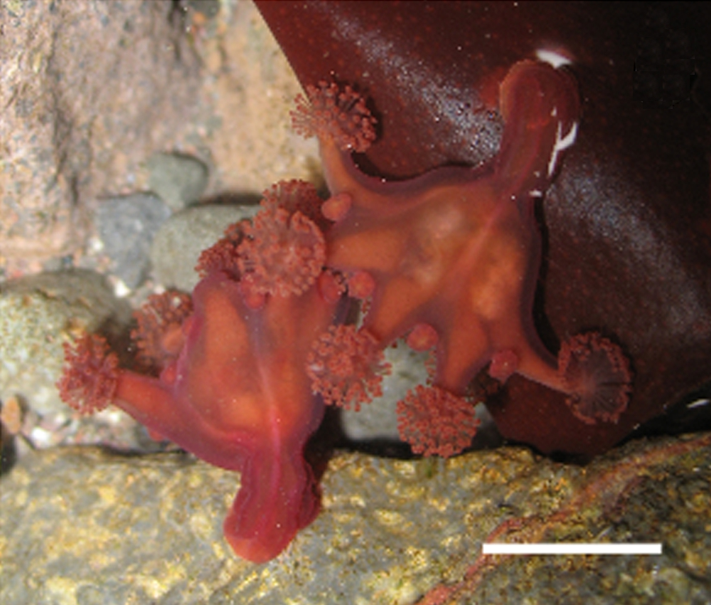 Living specimens of Haliclystus antarcticus in the field. Side view, attached to rock. Scale bar – 1.2 cm.